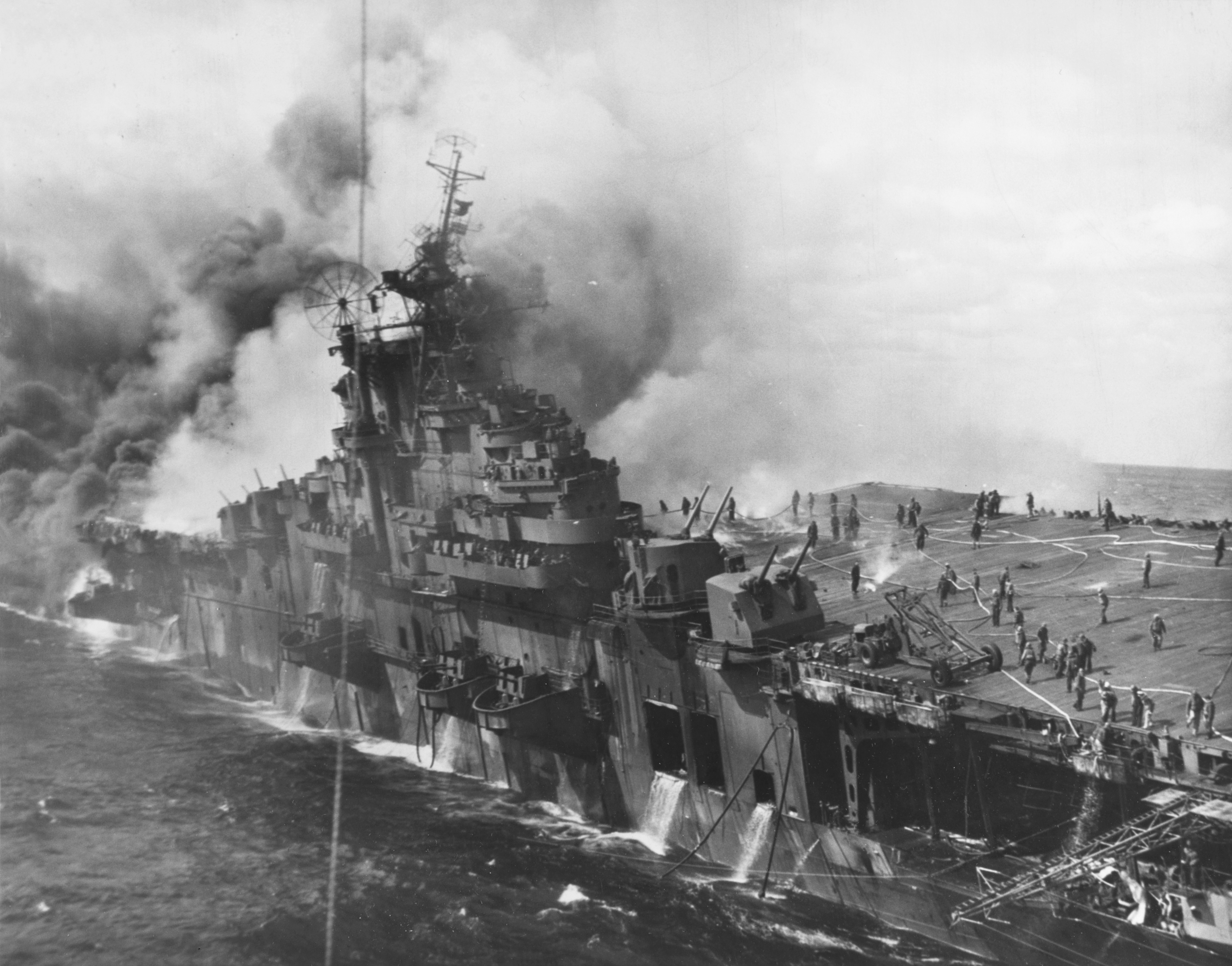 The U.S. Navy aircraft carrier USS Franklin (CV-13) afire and listing after a Japanese air attack, off the coast of Japan, 19 March 1945. Note the fire hoses and the crewmen on her forward flight deck, and water streaming from her hangar deck. Photographed from the light cruiser USS Santa Fe (CL-60).